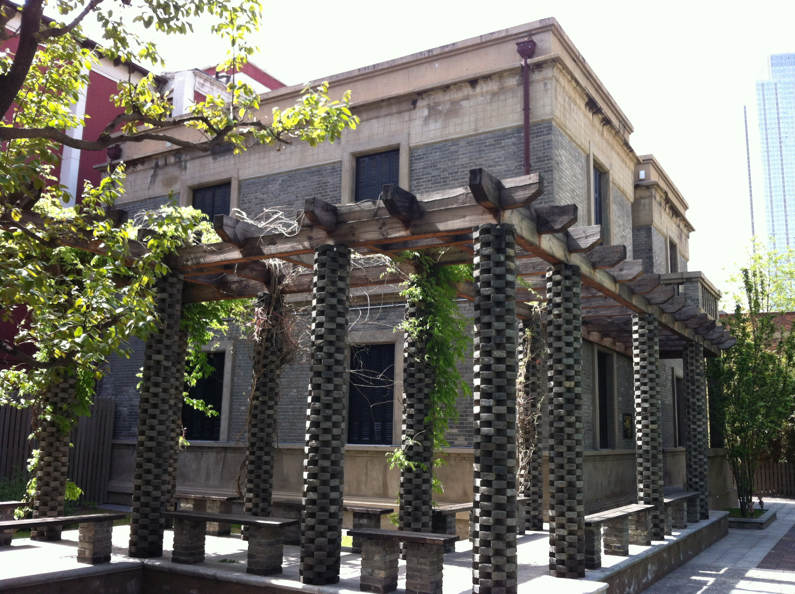 Former Residence of Cao Yu (1910–1966) in Minzhu Dao No. 25, Hebei District, Tianjin